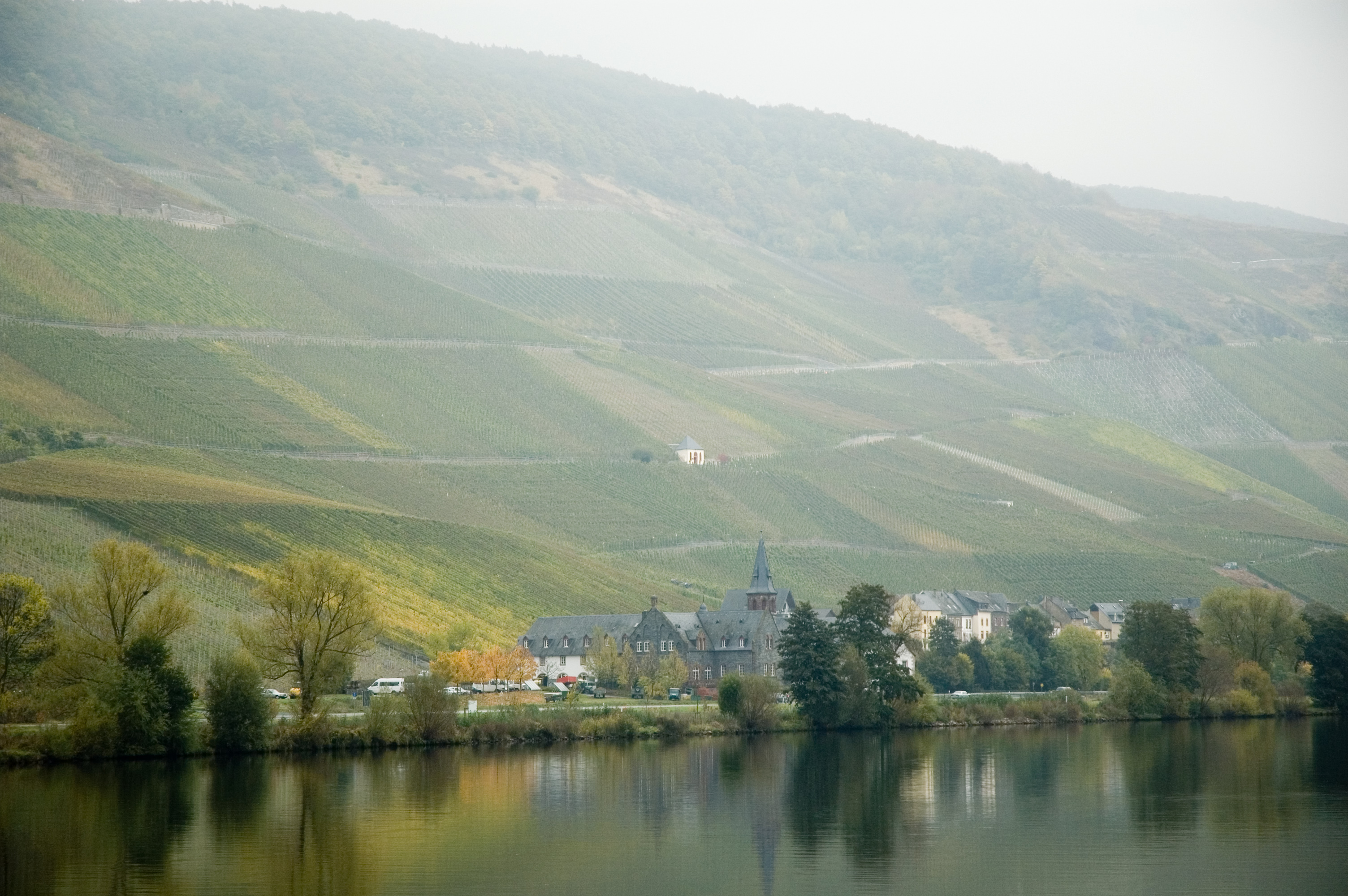 View towards the Graacher Himmelreich vineyard above the town of Graach, Mosel, Germany.